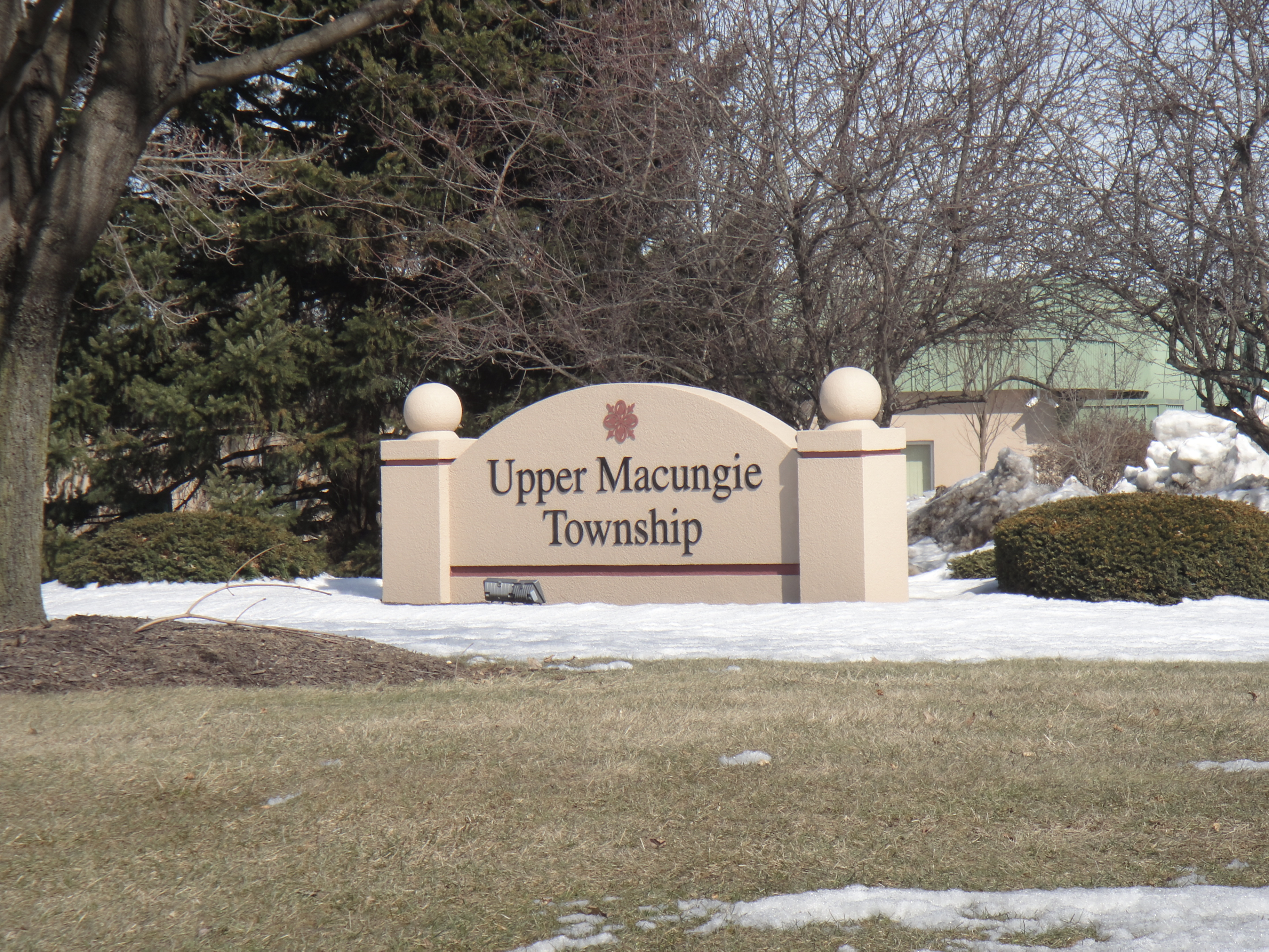 The Upper Macungie Township sign located in Breinigsville, Pennsylvania.